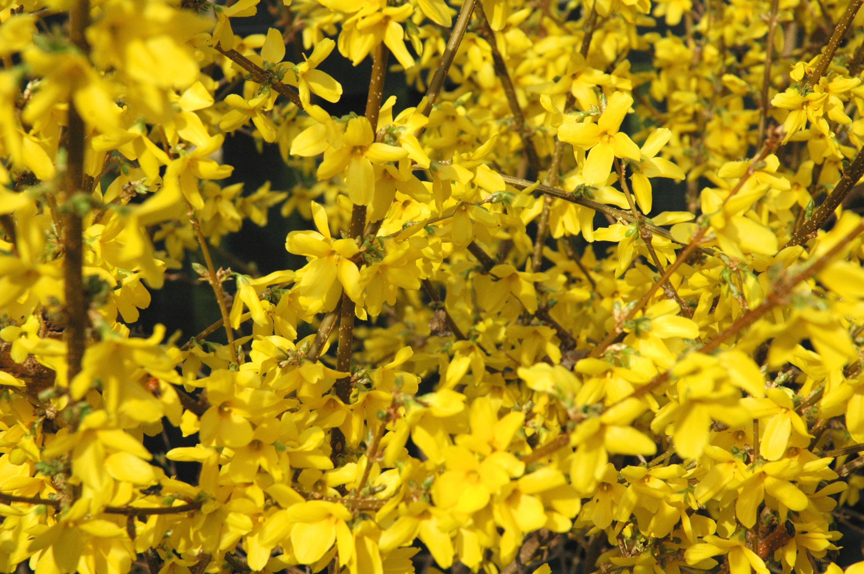 A forsythia bush.